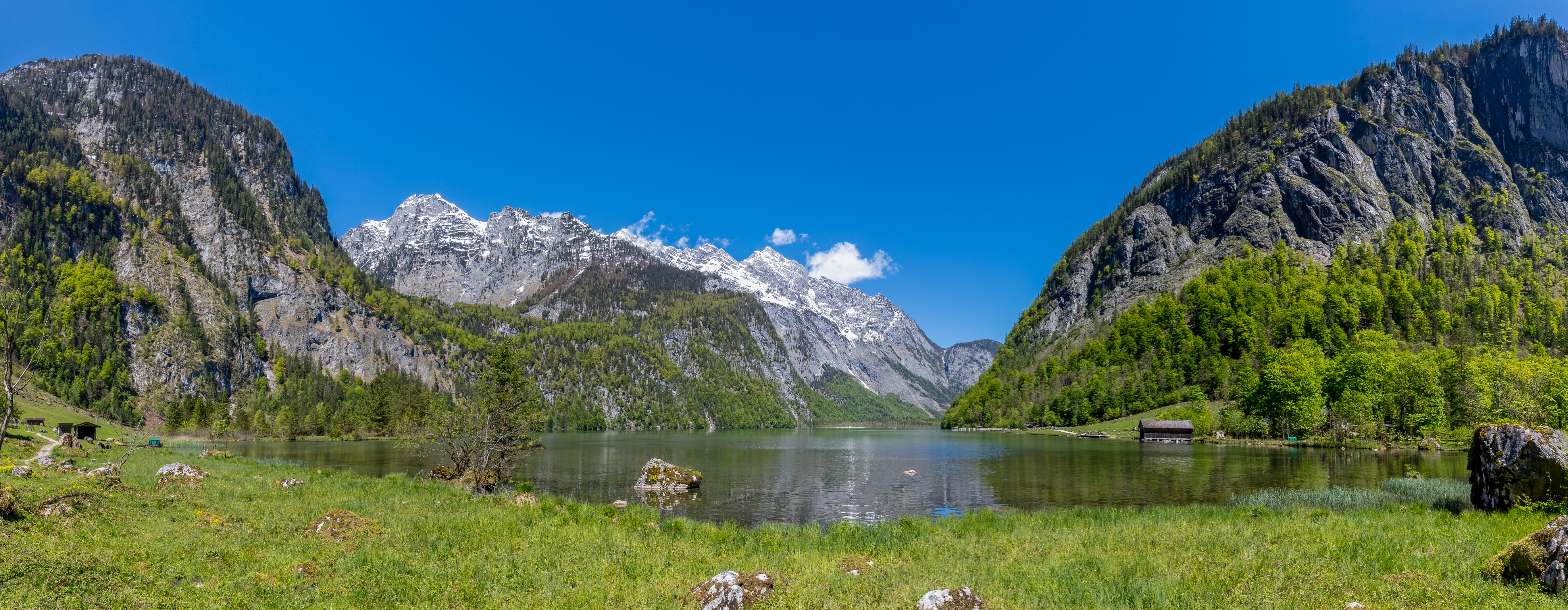 Königssee, Germany